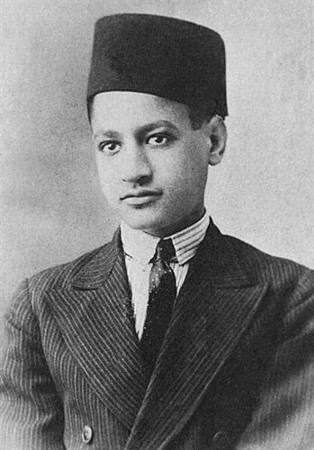 A photo of young Gamal Abdel Nasser at the boarding school of Helwan, Egypt